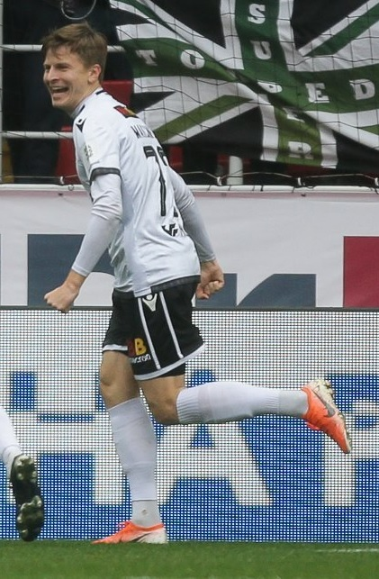 Maksim Maksimov celebrating a goal for FC Torpedo Moscow against FC Spartak-2 Moscow.